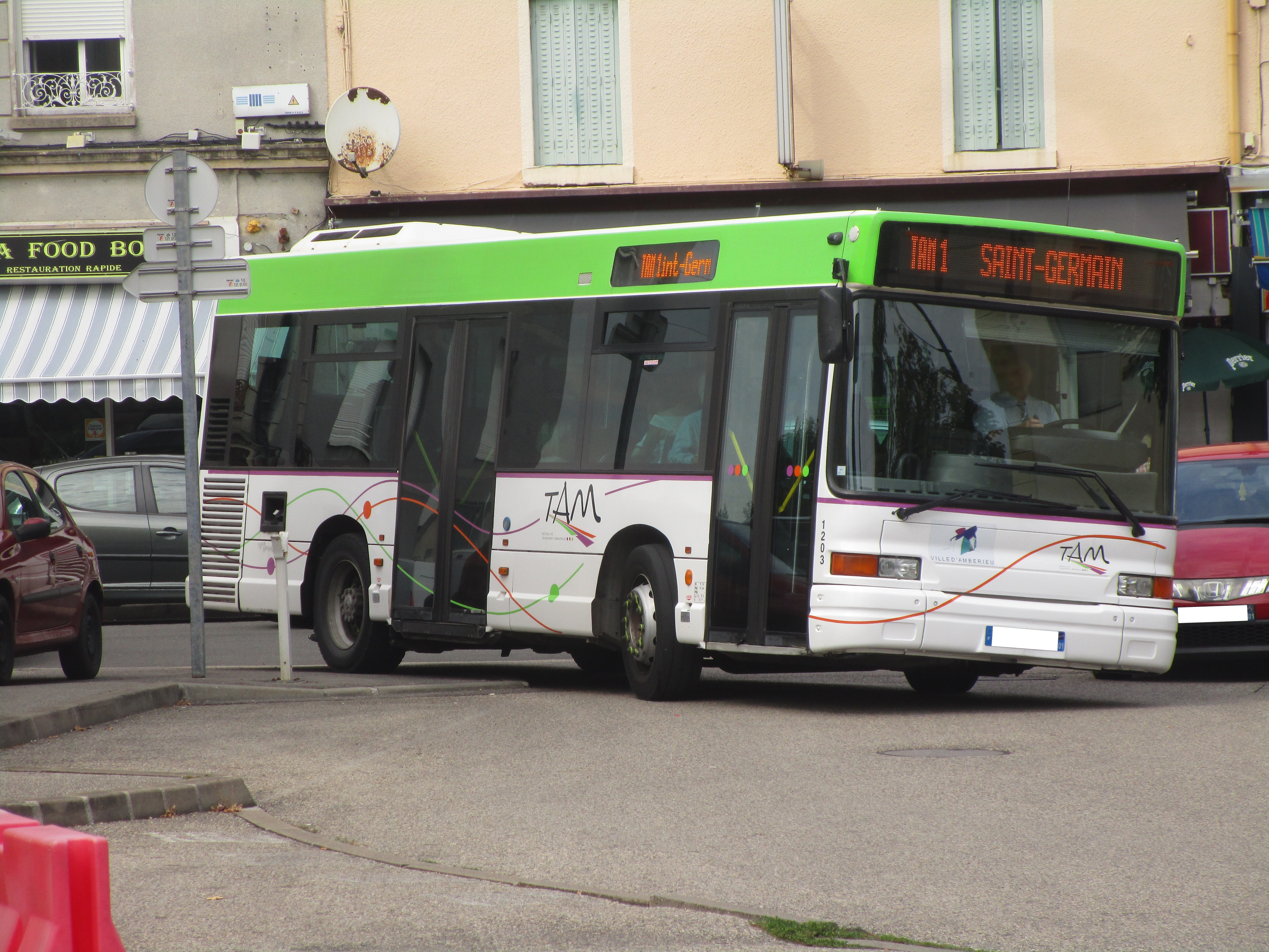 An Heuliez GX 117 (n°1203 of Philibert) running on TAM’s line 1 — Gendarmerie, Ambérieu-en-Bugey↔Saint Germain, Ambérieu-en-Bugey — at the call Gare SNCF (Ambérieu-en-Bugey, France) on August 16, 2017.